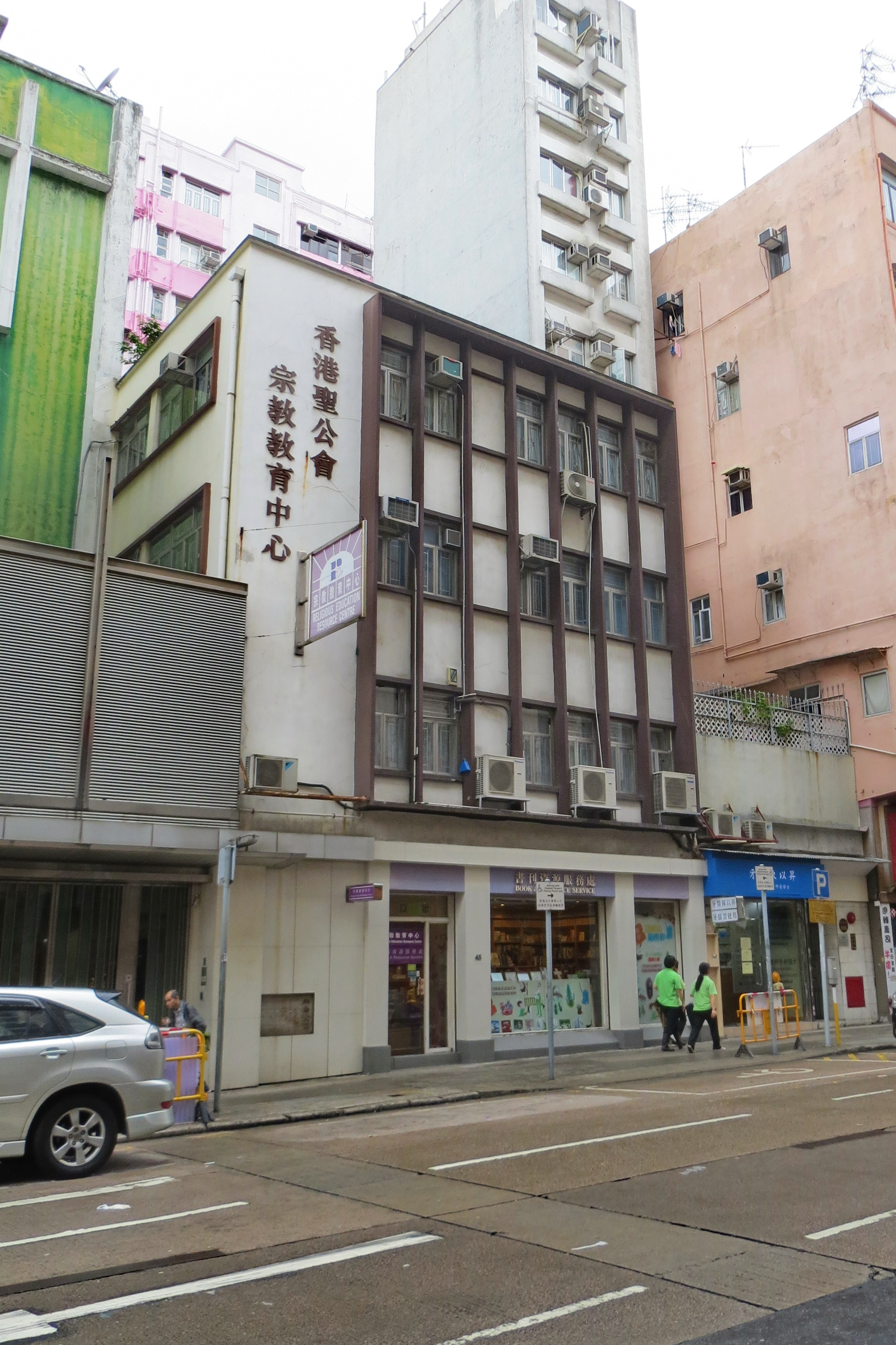 S.K.H. Diocesan Religious Education Resource Centre, 45 Berwick Street, Kowloon, Hong Kong.